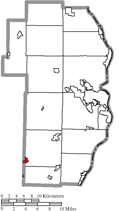 Map of the municipal and township boundaries of Jefferson County, Ohio, United States, as of the 2000 census, with the location of the village of Adena highlighted. Township borders are shown only in unincorporated areas in order to differentiate incorporated and unincorporated areas more clearly.